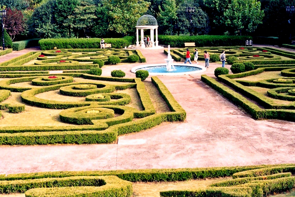 Yeomiji Botanical Garden, this is the French Garden area, Jeju Island South Korea. September 2001